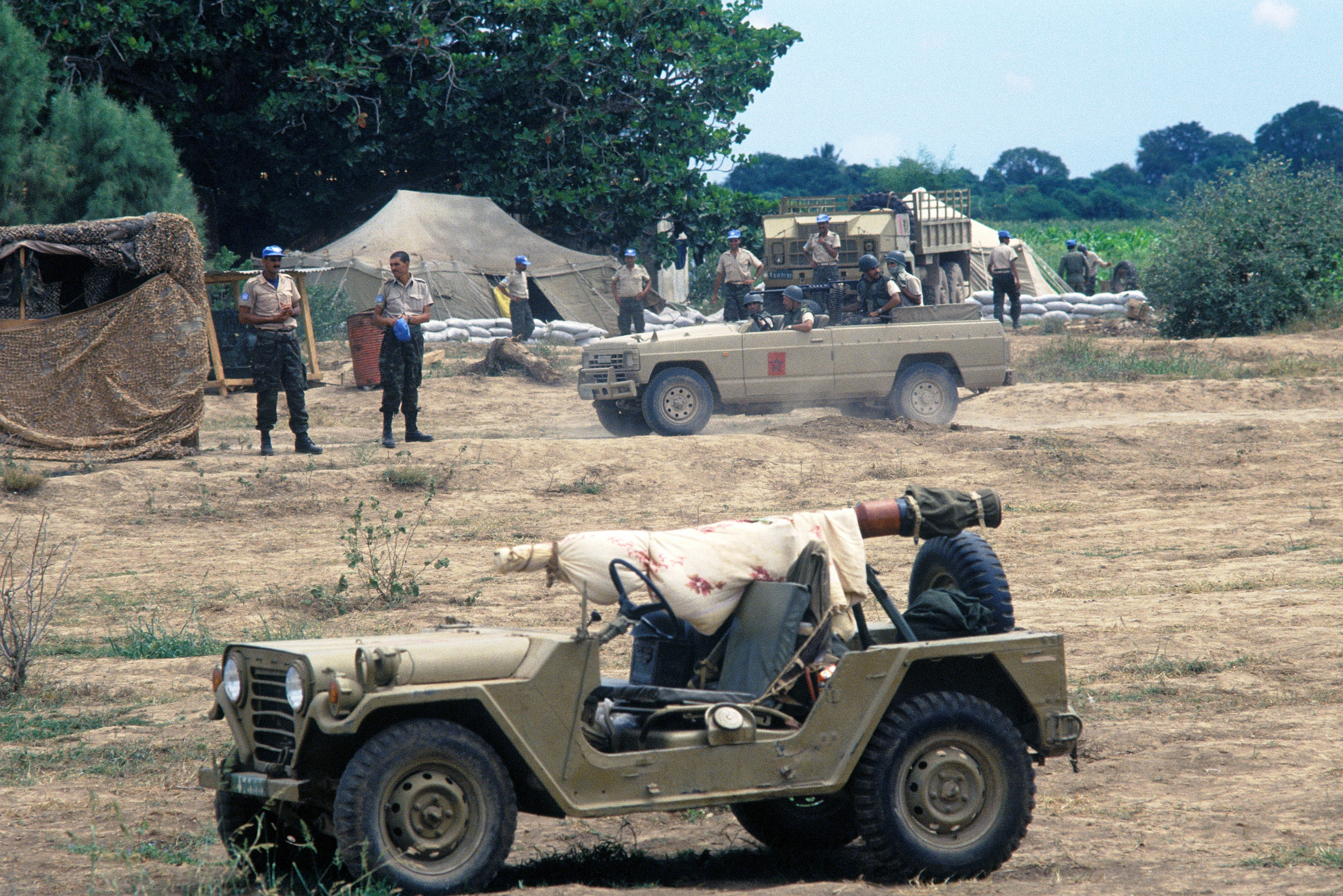 Quorioley: Moroccan jeeps, armed with anti-tank weapons, and personnel prepare to depart their base camp for another checkpoint. The Moroccans are deployed to Somalia to support UNOSOM II.